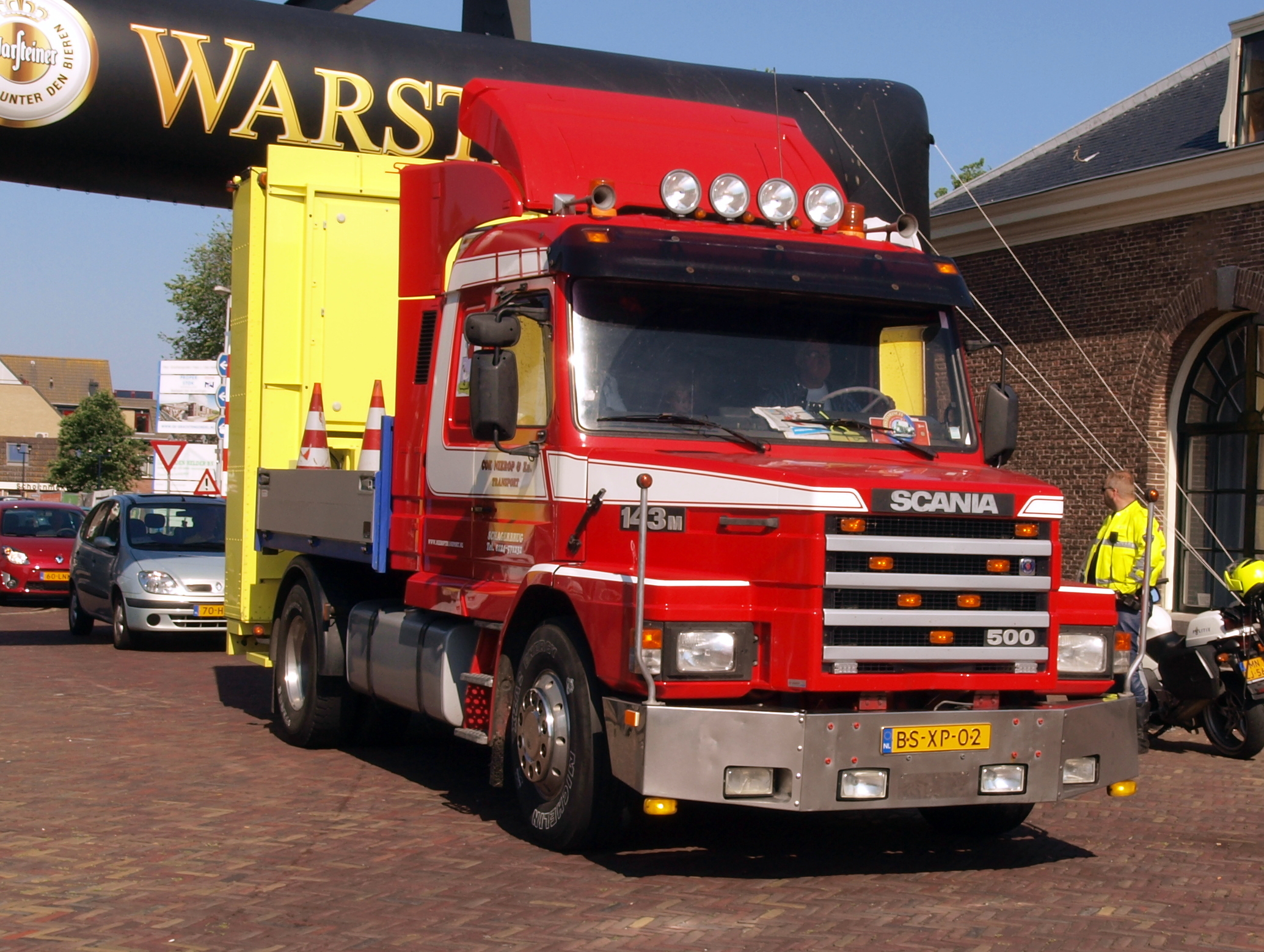 Photographed at Den Helder, The Netherlands. OLYMPUS DIGITAL CAMERA